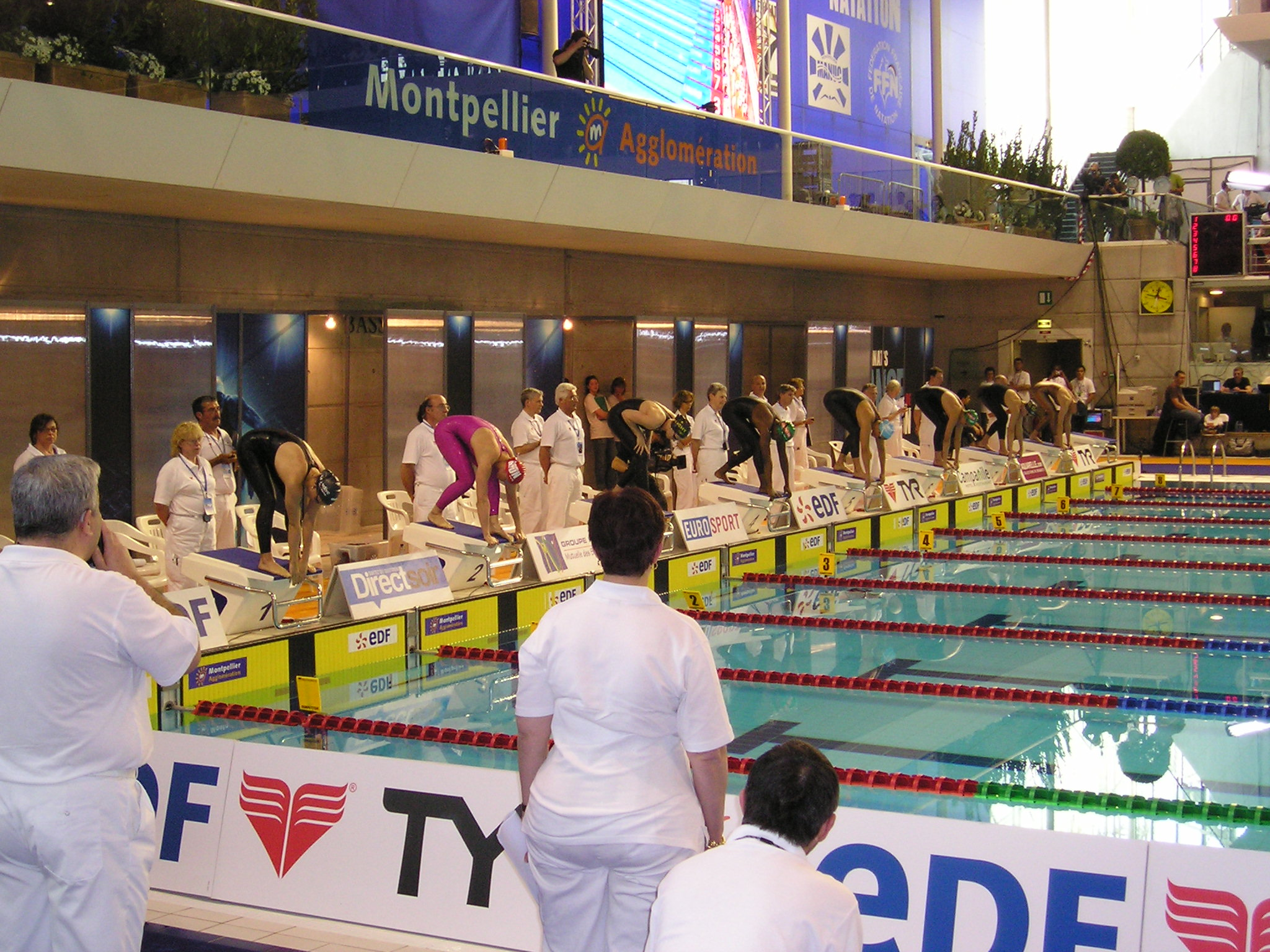 French Swimming Championships, Montpellier, 24 April 2009 afternoon: start of the 100 meters free style Women final.